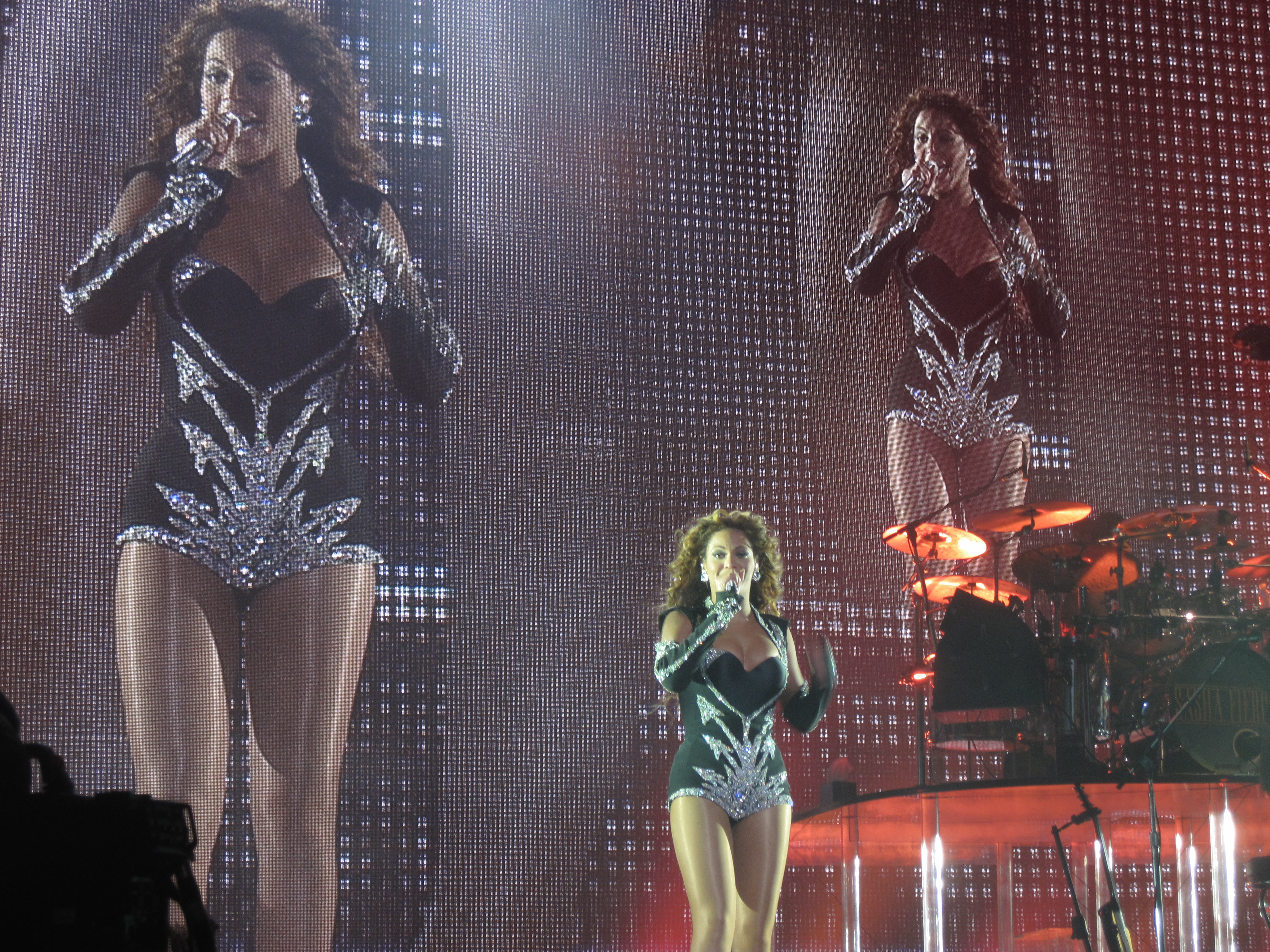 Beyoncé performing on The O2 in London.